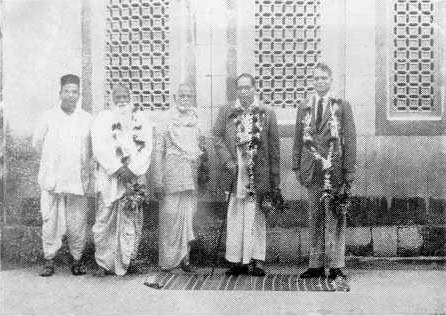 Dr. Ambedkar with Saint Gadge Baba (social reformer from Vidarbha), Karmaveer Bhaurao Patil (famous educationist and social worker from Satara), Dadasaheb Gaikwad